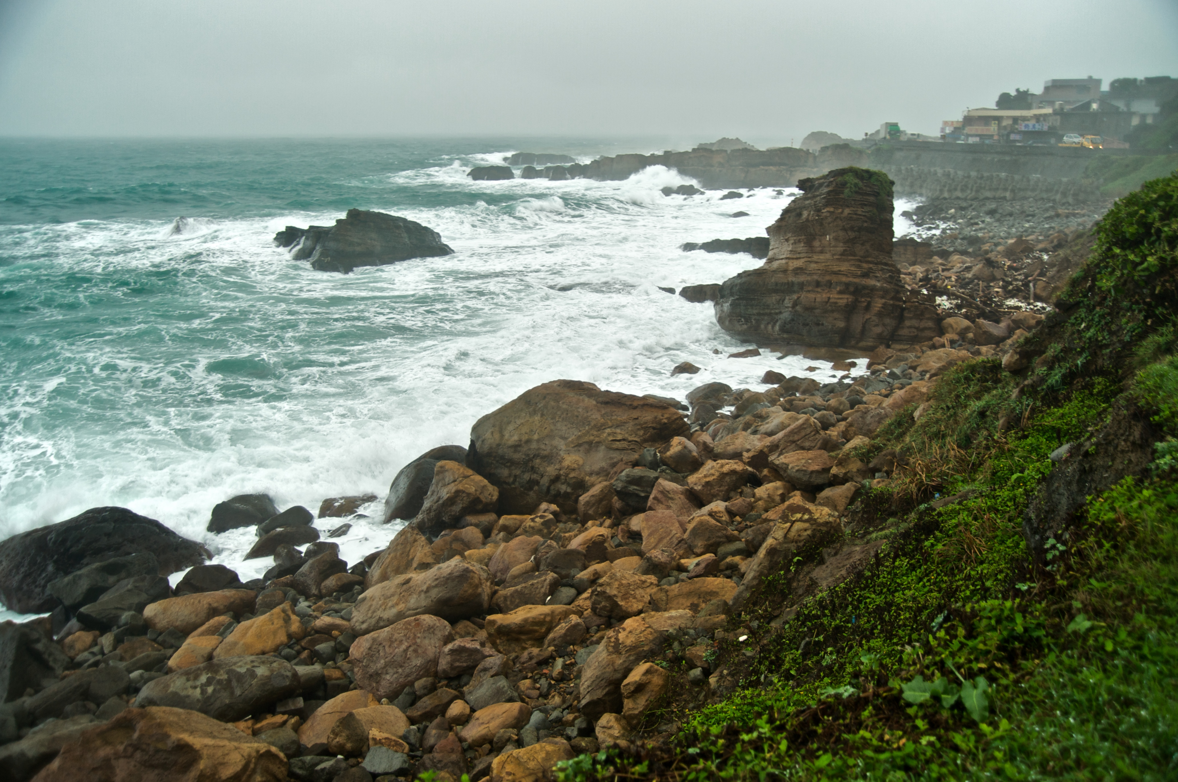 Stormy sea seen on the Northern Coast Highway near JInguashi